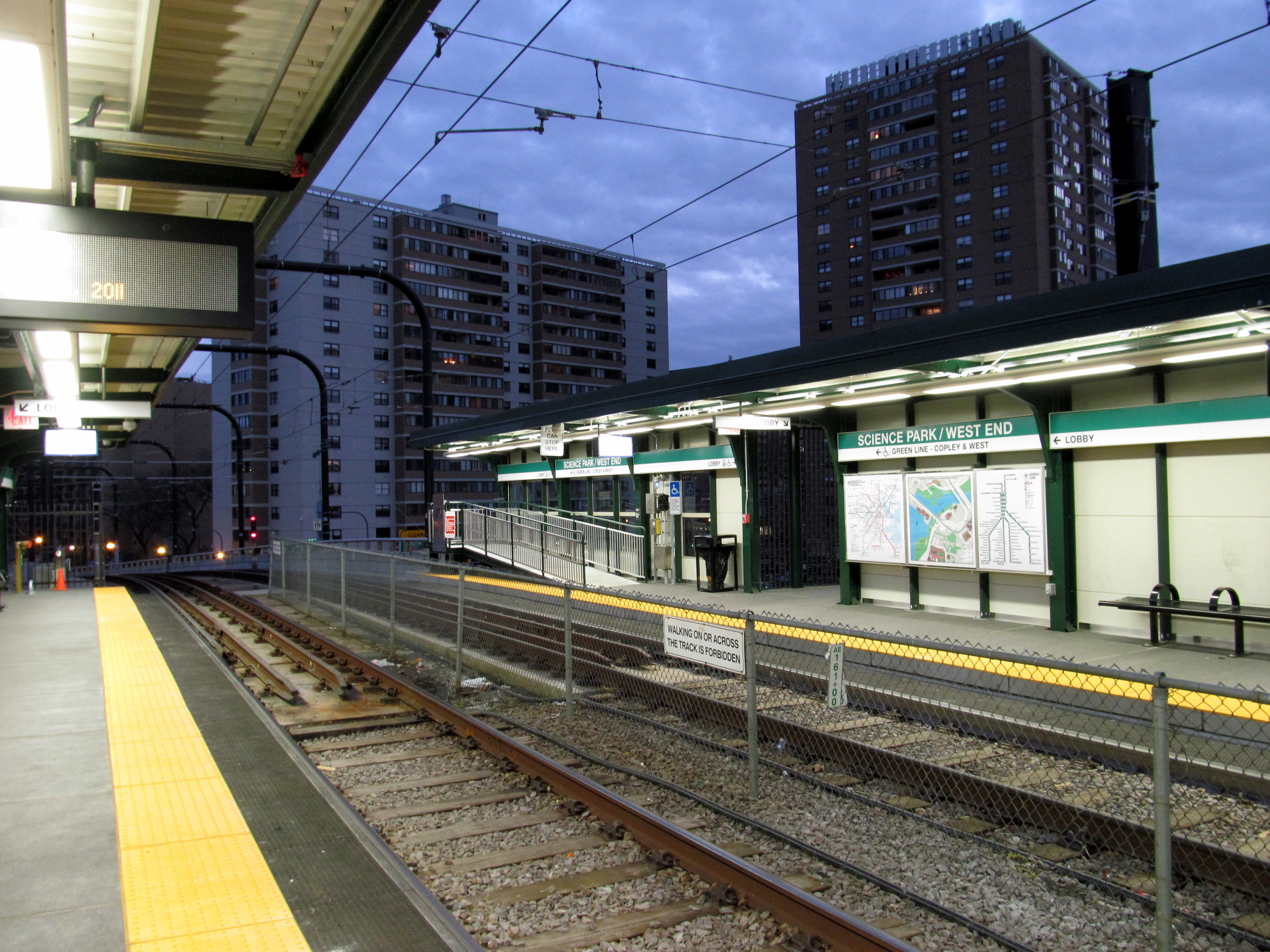 Science Park station after the 2011 renovation. This view faces inbound towards North Station.